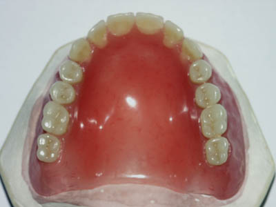 Complete denture.